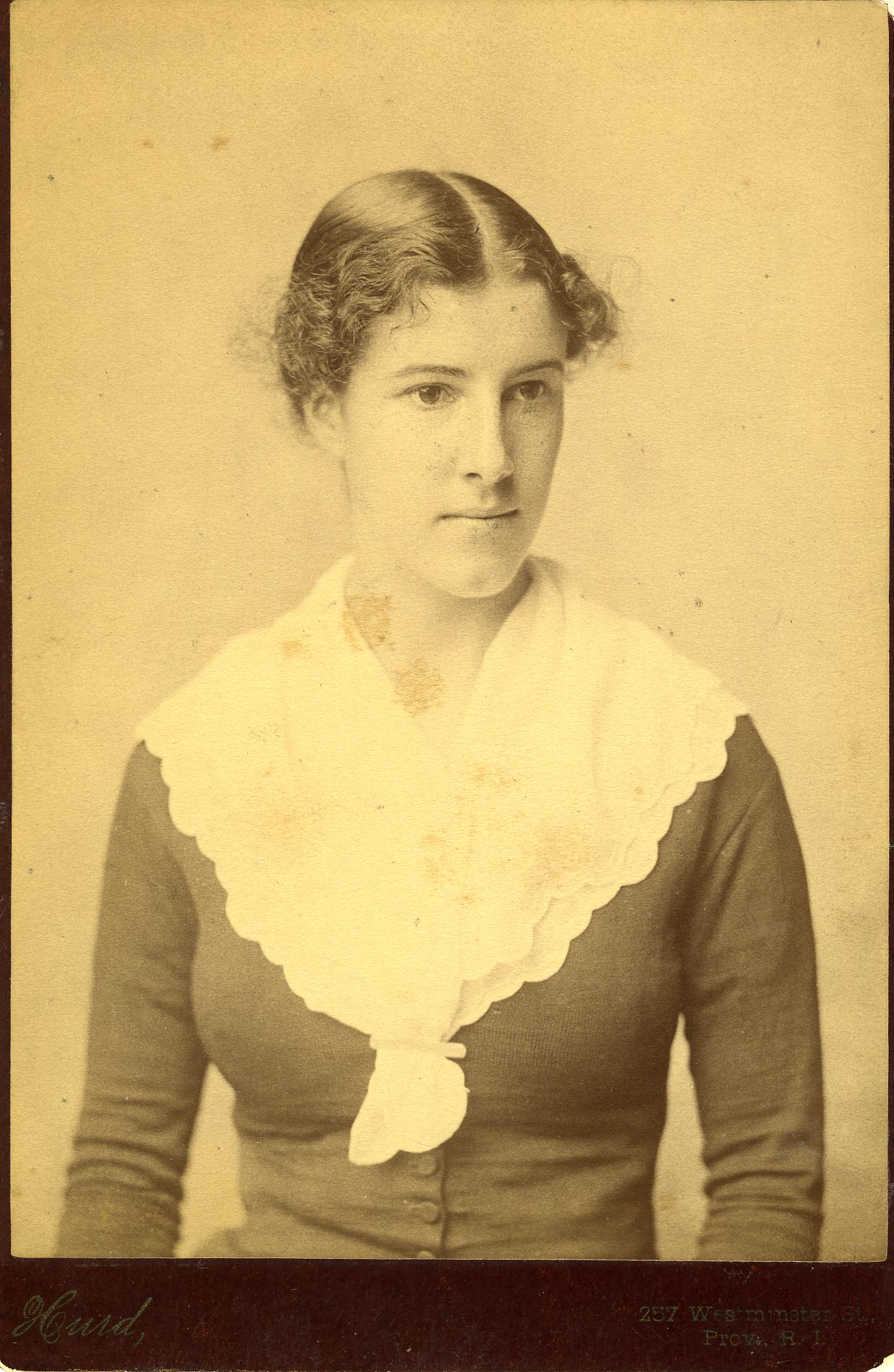 Portrait of Charlotte Perkins Gilman at age twenty four, ca. 1884. Photographer: Hurd View catalog record Questions? Ask a Schlesinger Librarian